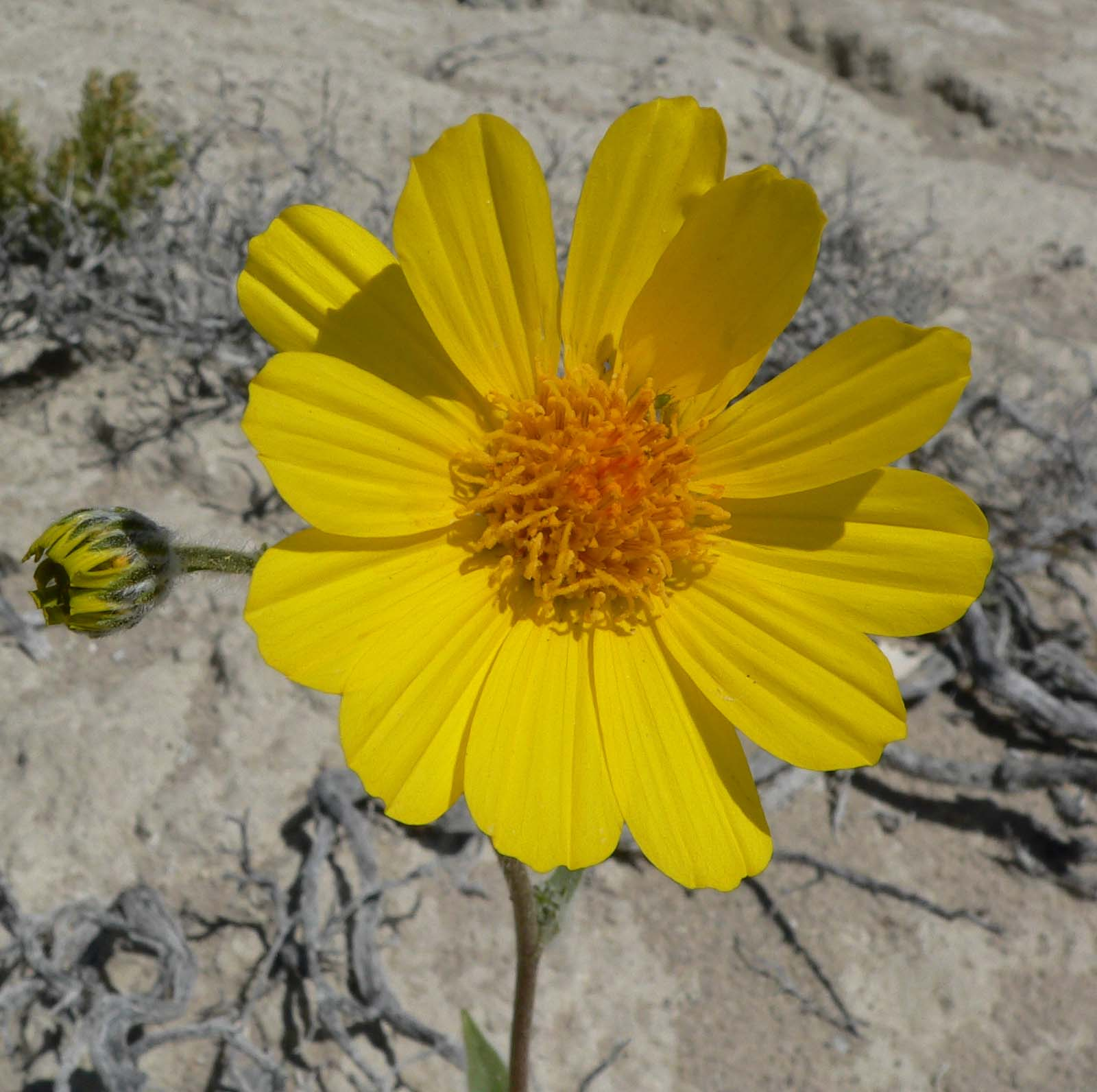 Photo of Geraea canescens (desert sunflower) near Shoshone, California